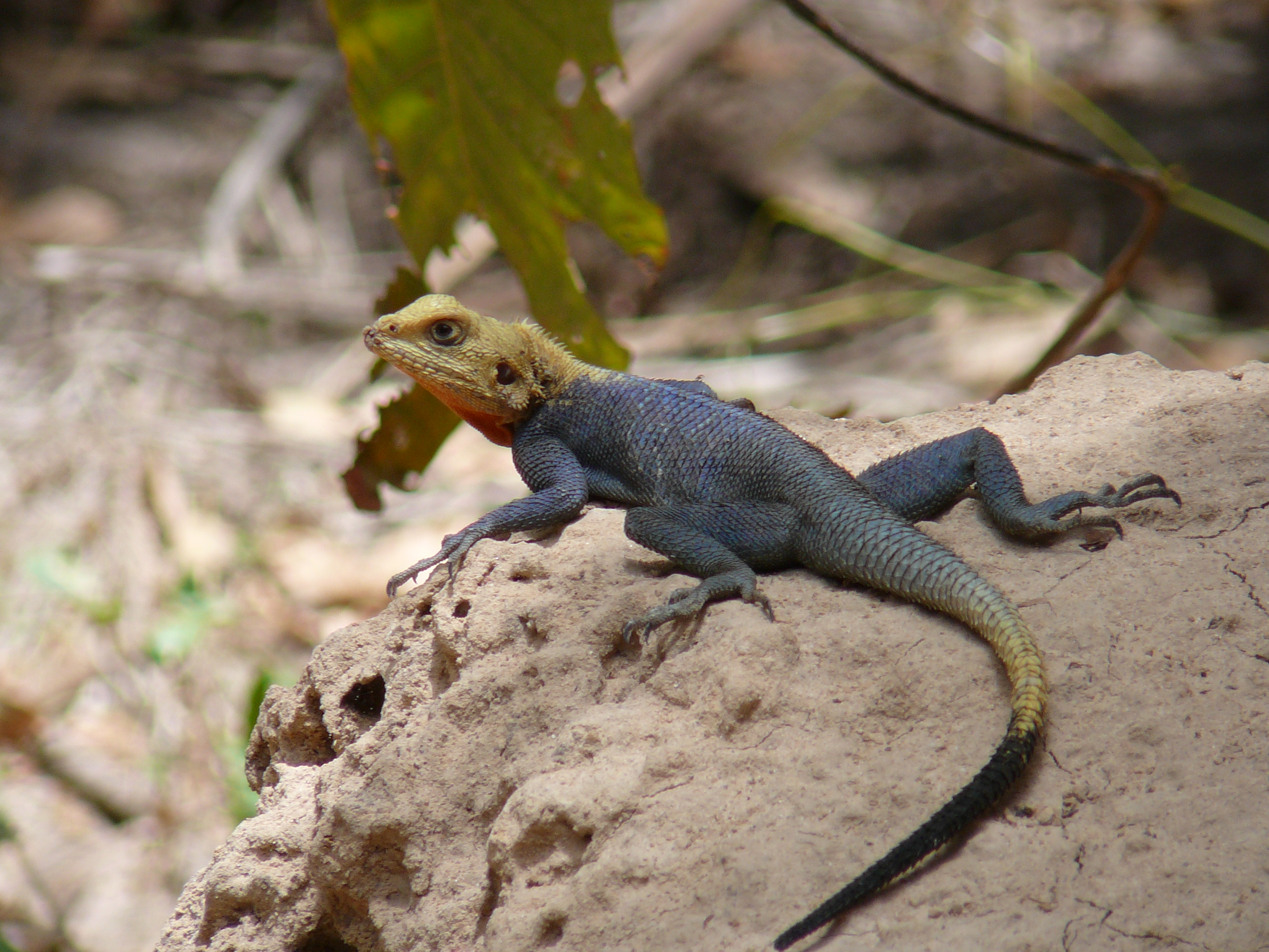 Agama lizard, male